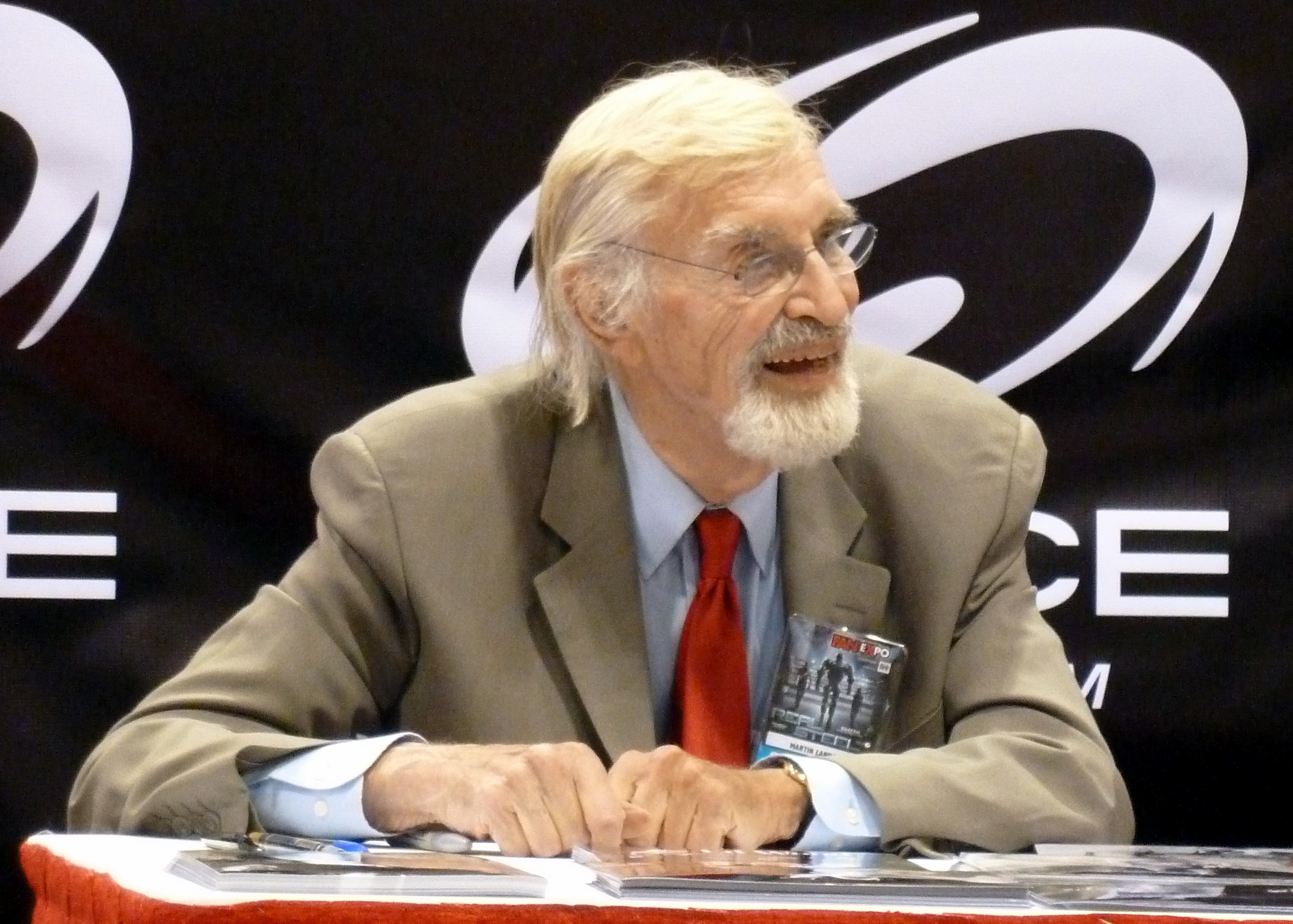 Martin Landau at Fan Expo 2011 in Toronto